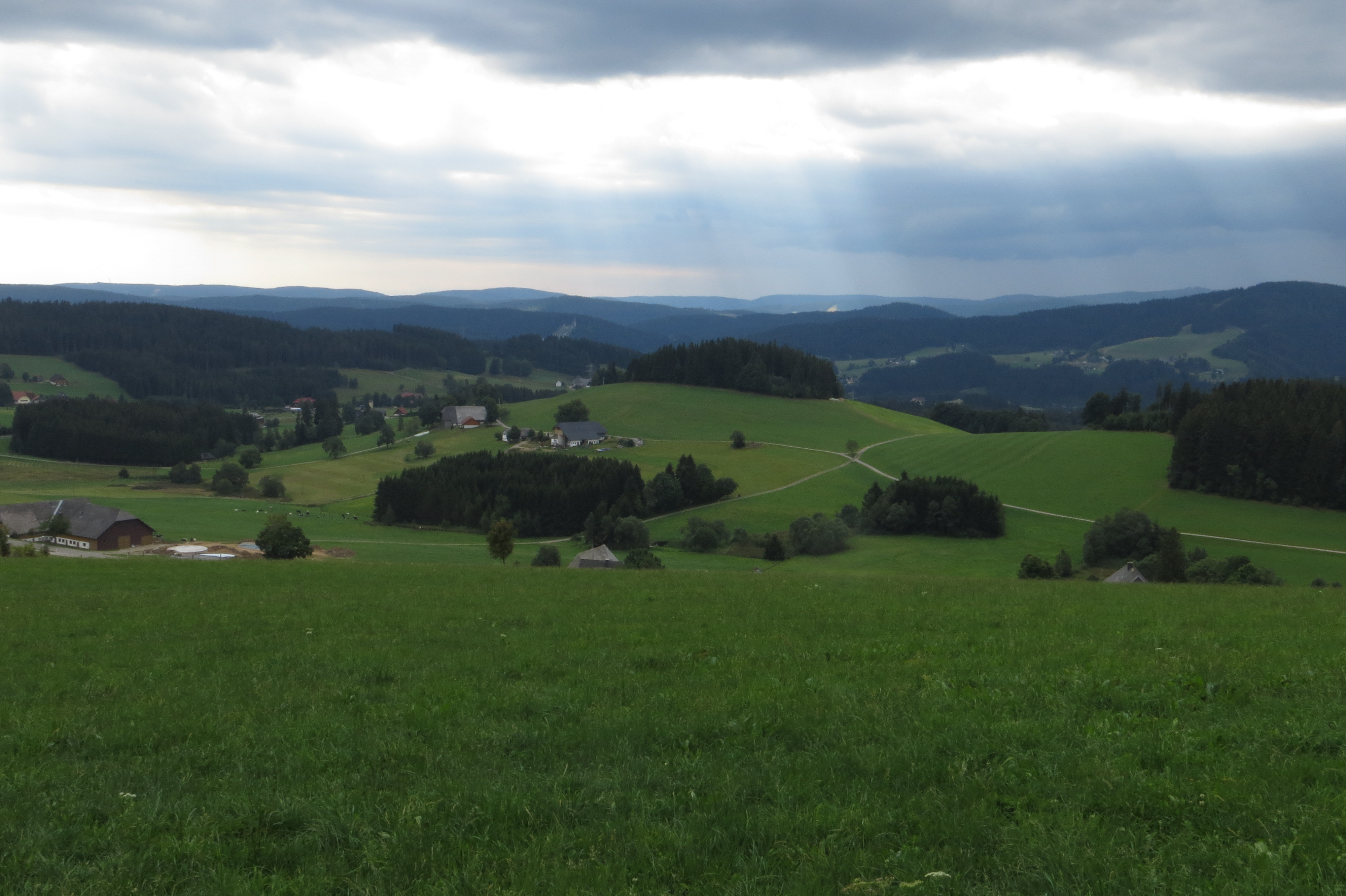 Woods and pastures of the High Black Forest near Breitnau, Baden-Wuerttemberg, Germany